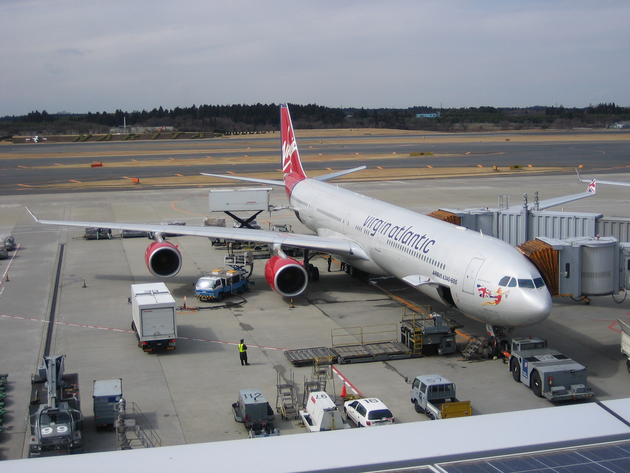 A340-600 at Terminal 1, Narita Airport.Virgin A340